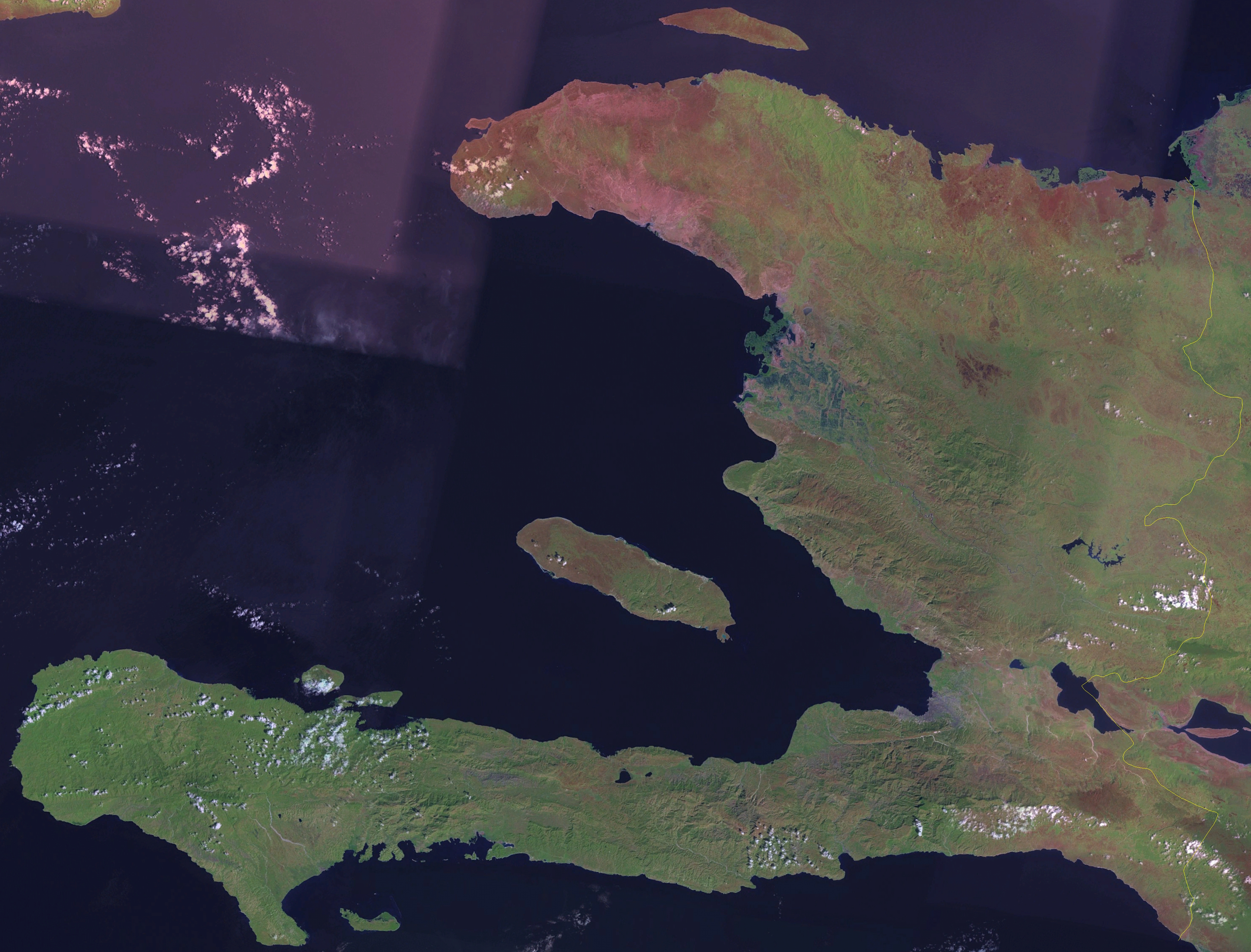 Satellite image of Haiti.